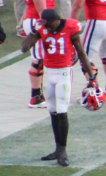 Chris Conley in 2013